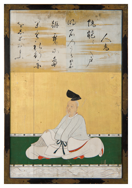 Sanjūrokkasen-gaku (Thirty-six Poetry Immortals framed picture) #1: Hitomaru (Kakinomoto no Hitomaro)